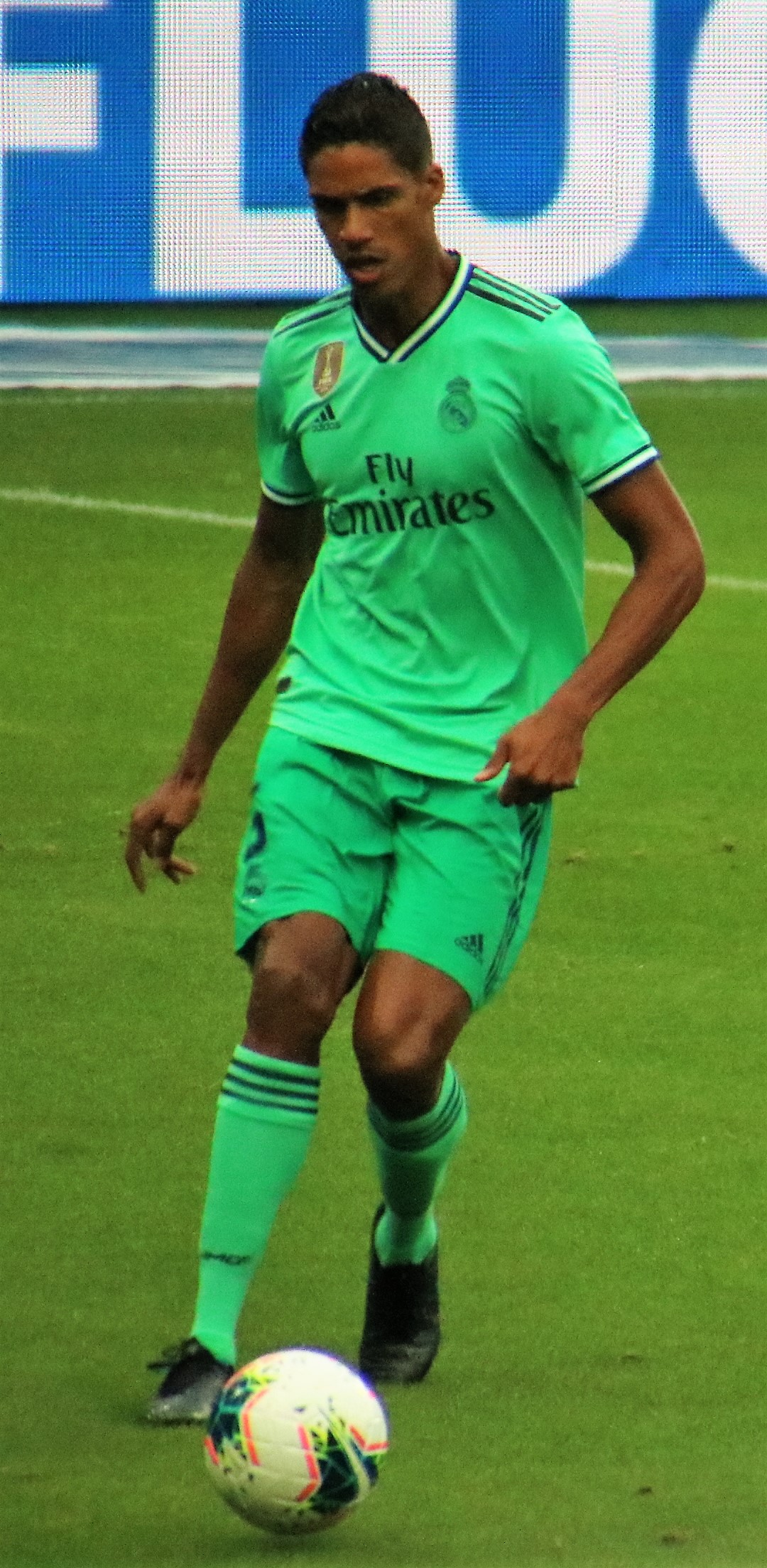 preseason match FC Salzburg